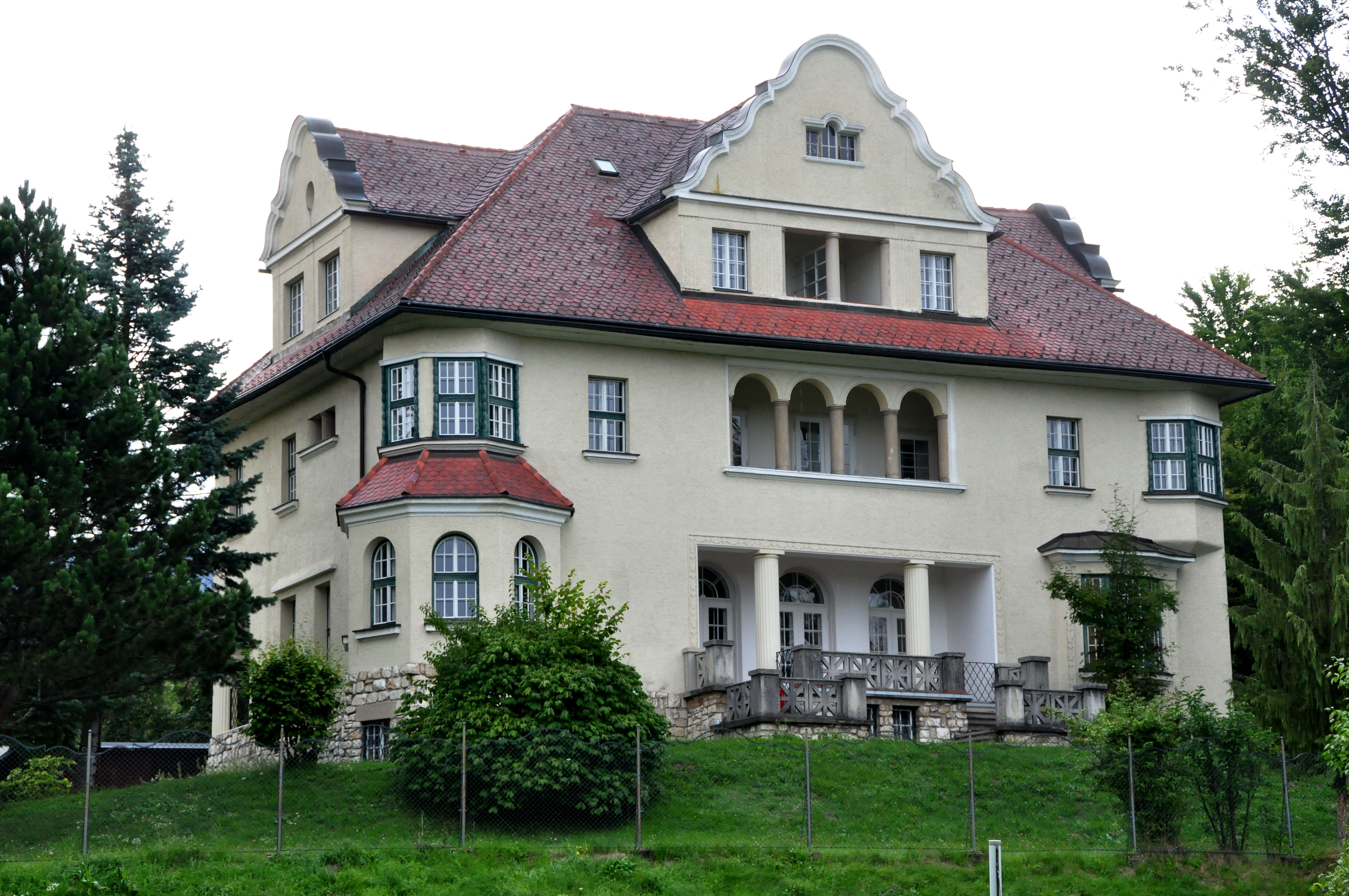 Villa Maire, designed by architect Franz Baumgartner and built in the year 1920 (“Woerthersee Architecture”) in Unterwinklerner Strasse #12, Velden am Wörthersee, district Villach Land, Carinthia, Austria, EU